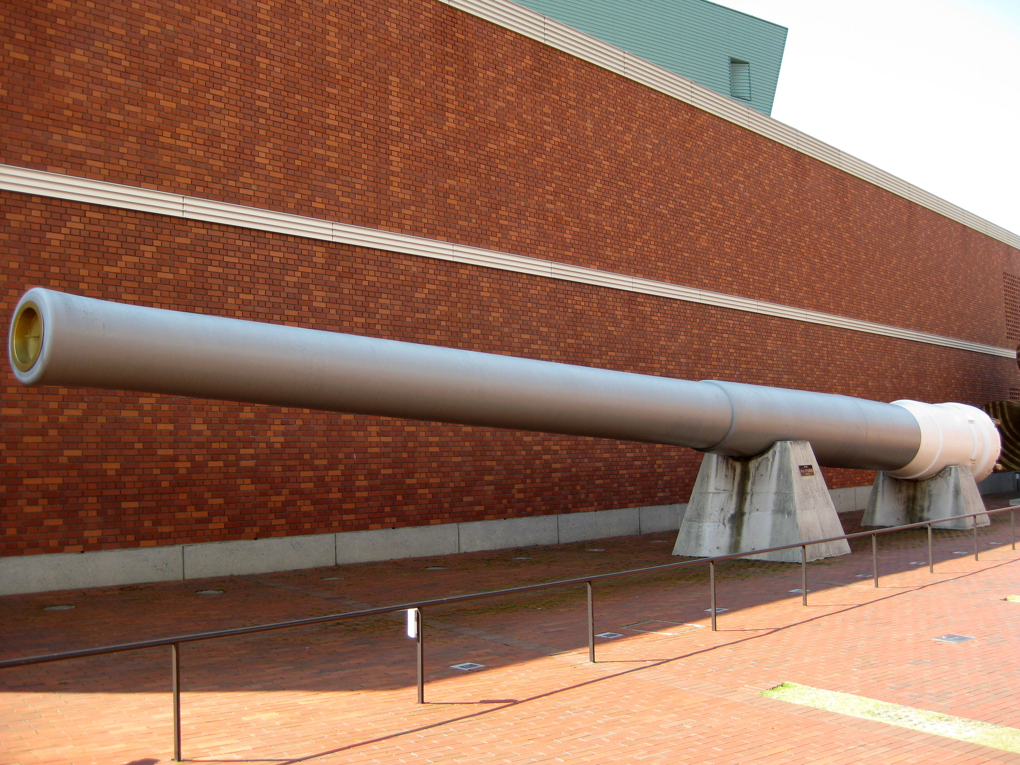 A 16.1 inch gun from the Japanese battleship Mutsu on display outside the Yamato Museum in October 2008.